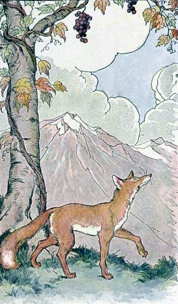 The Fox and the Grapes, illustrated by Milo Winter in The Æsop for Children